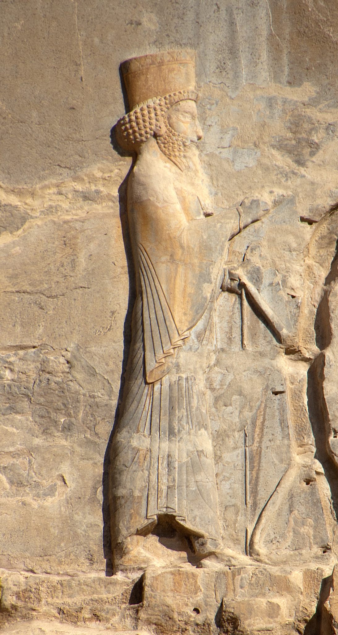 Artaxerxes II relief detail